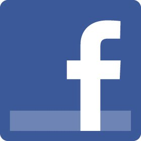 Facebook Light Logo